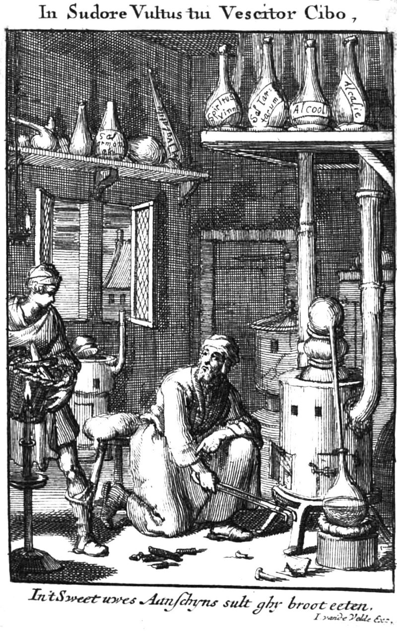 Frontispieces of Amsterdam edition of G. Starkey's "Pyrotechnia", 1687